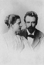 Jenő Hubay and his wife Róza Cebrián